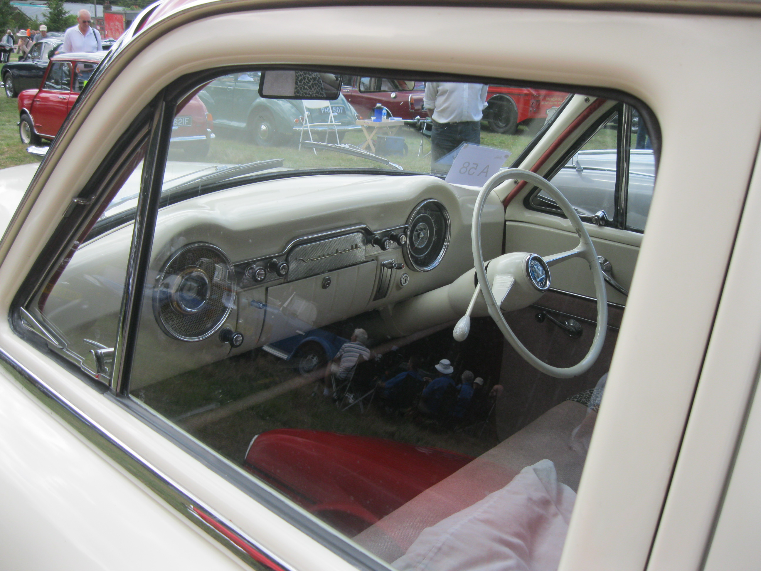 Spotted at the Bluebell Railway Historic Transport Weekend on 10.08.13